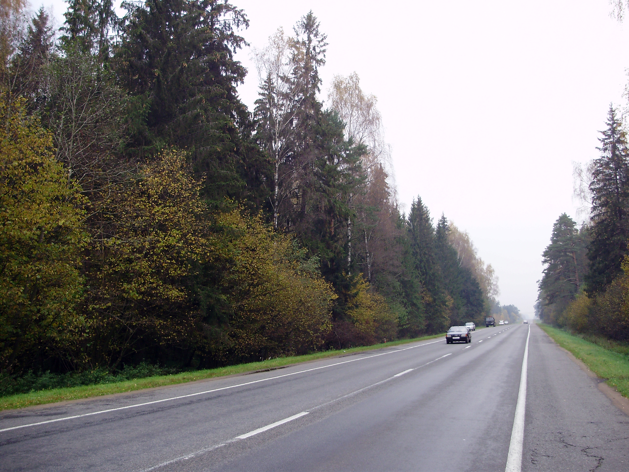 M8 in Shklow Raion